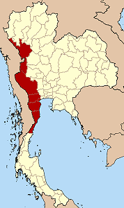 Map of Thailand highlighting the western region according to the six geographical regions established by the National Research Council of Thailand